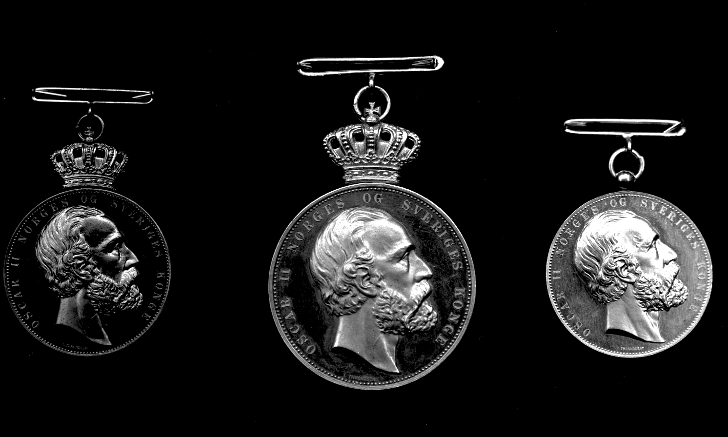 Adverse of Norwegian Medaljen for edel dåd (Medal for Heroic Deeds), three classes, with portrait of king Oscar II. Photo by Borgen, Gustav, Norsk Folkemuseum, via DigitaltMuseum.